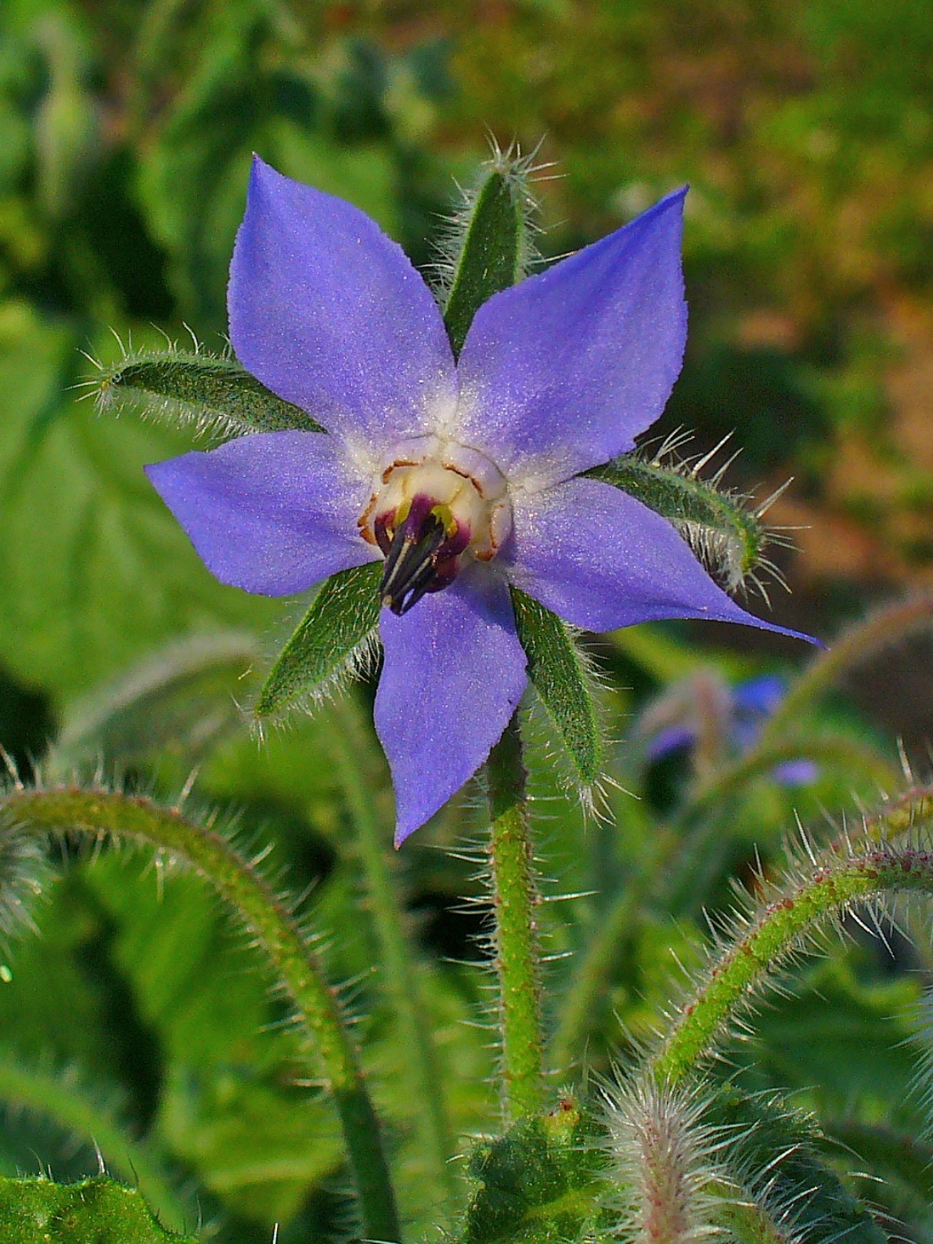 Borago officinalis, Boraginaceae, Borage, Starflower, flower; Botanical Garden KIT, Karlsruhe, Germany. The leaves are used in homeopathy as remedy: Borago officinalis (Borag.)